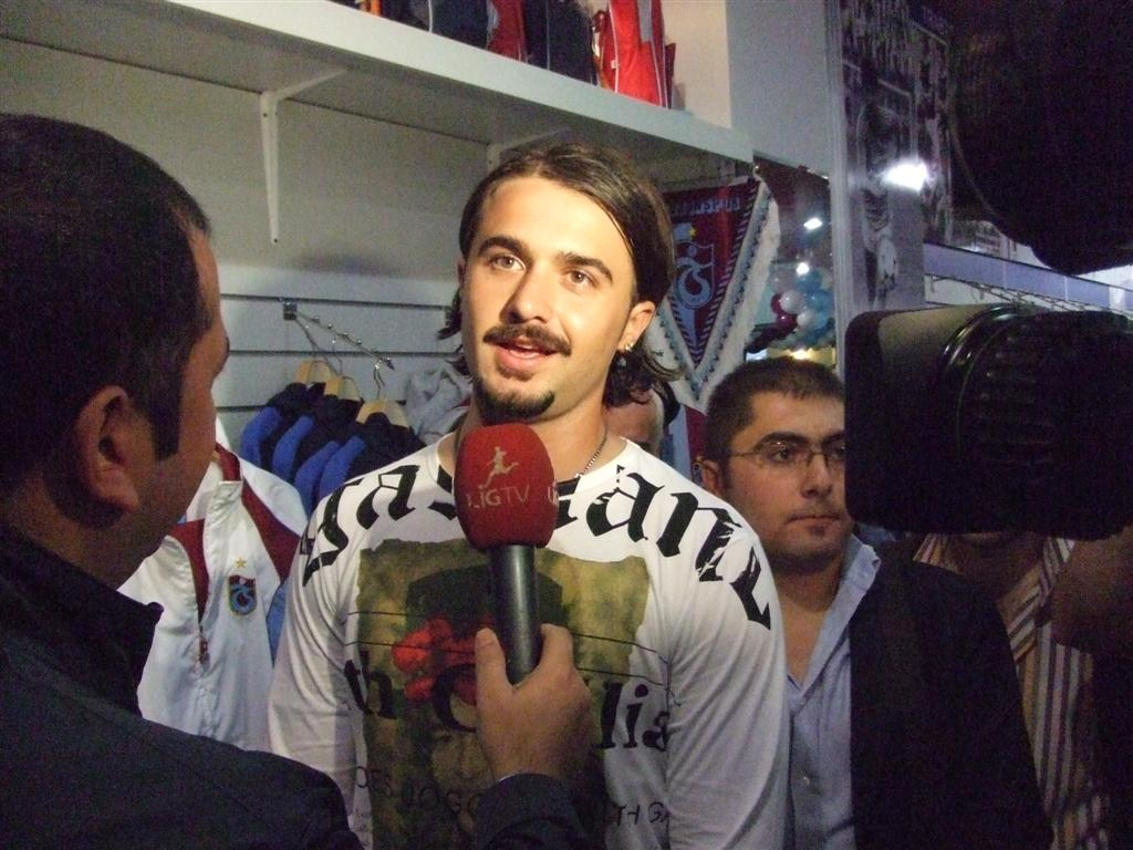 Turkish goalkeeper